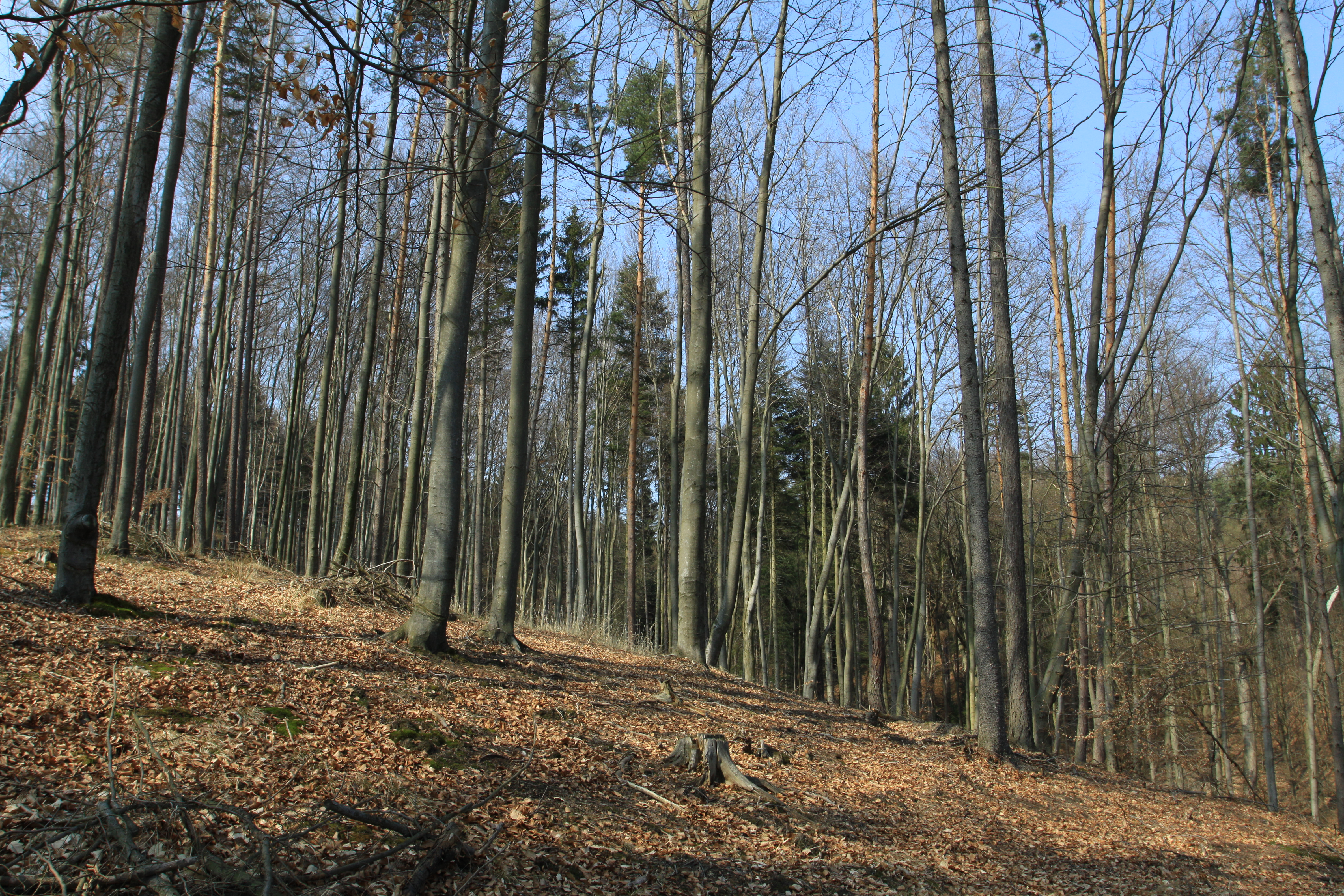 National natural monument Bílichovské údolí, Kladno District, Czechia